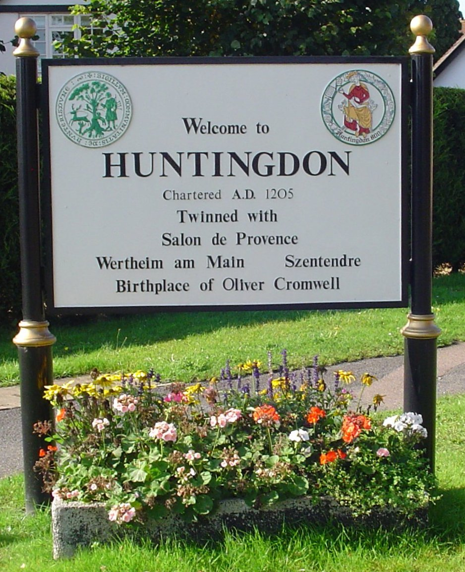 Signpost in Huntingdon